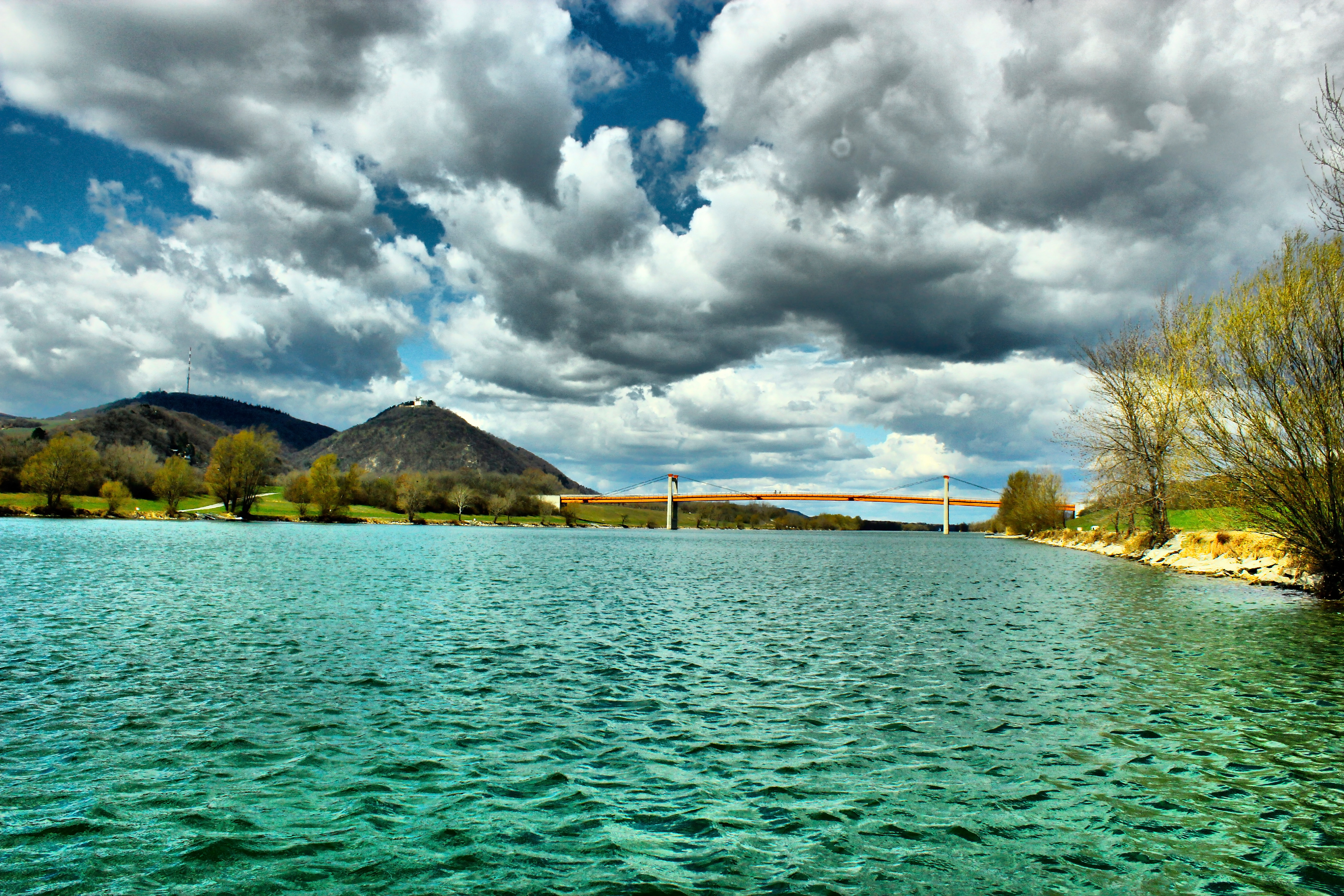 Neue Donau is a branch of the Donau which passes in the city of Vienna